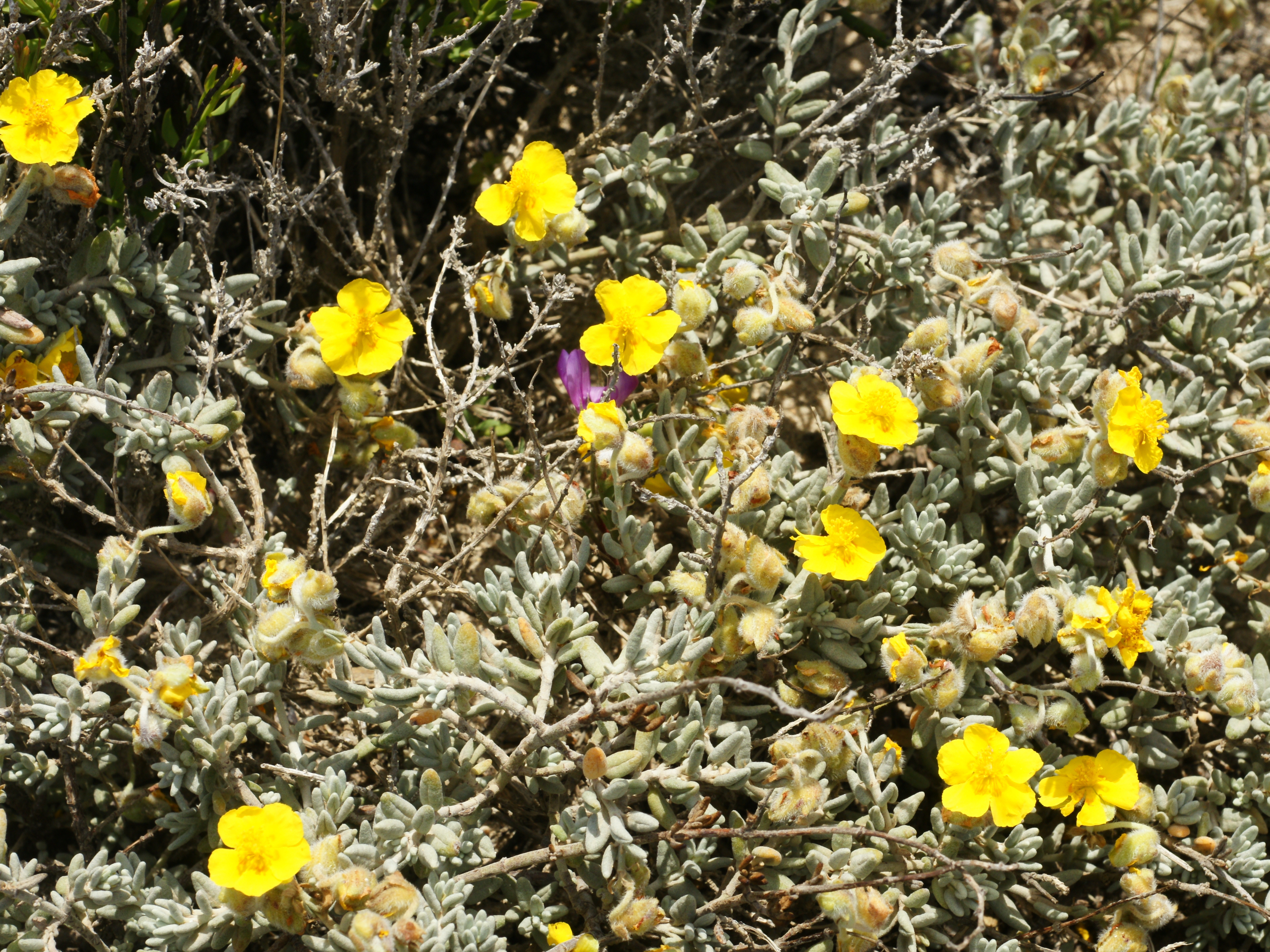 Cat's Head Rockrose, a rare rockrose. Approximate co-ordinates: plant located within 5 km from Putzu Idu, Sardinia, ItalyHelianthemum caput-felis is included in the Annex of the Berne Convention and it is protected by European legislation. It is categorized as rare by the IUCN